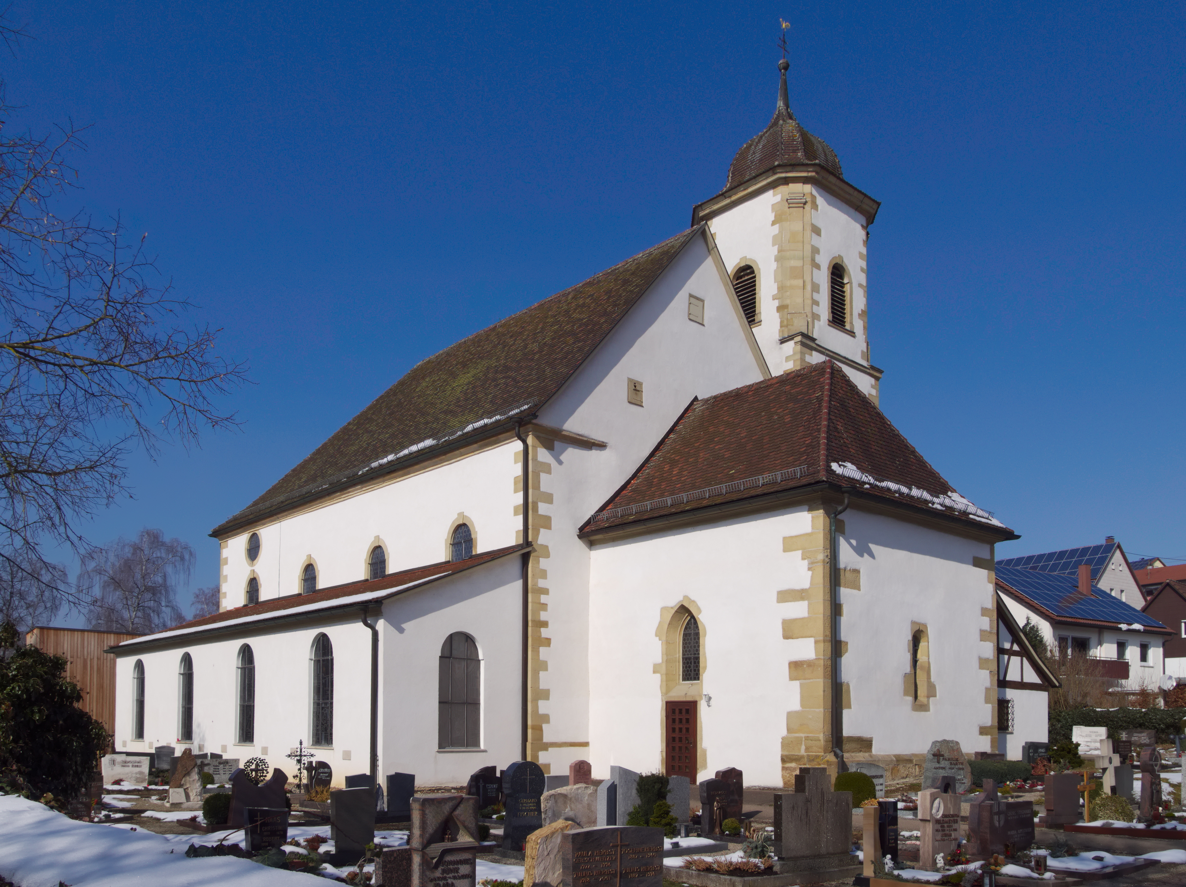 St Georg church in Leinzell, Germany, and churchyard